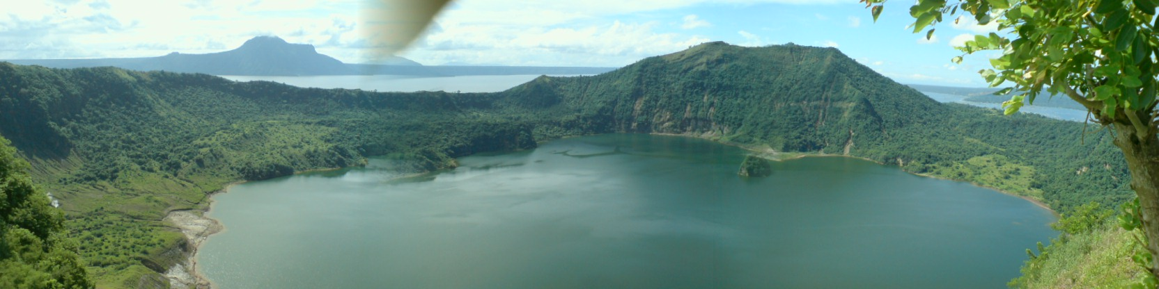 Taken October 2007 looking into crater. Photographed and freely shared by Elvin D. Ganzon